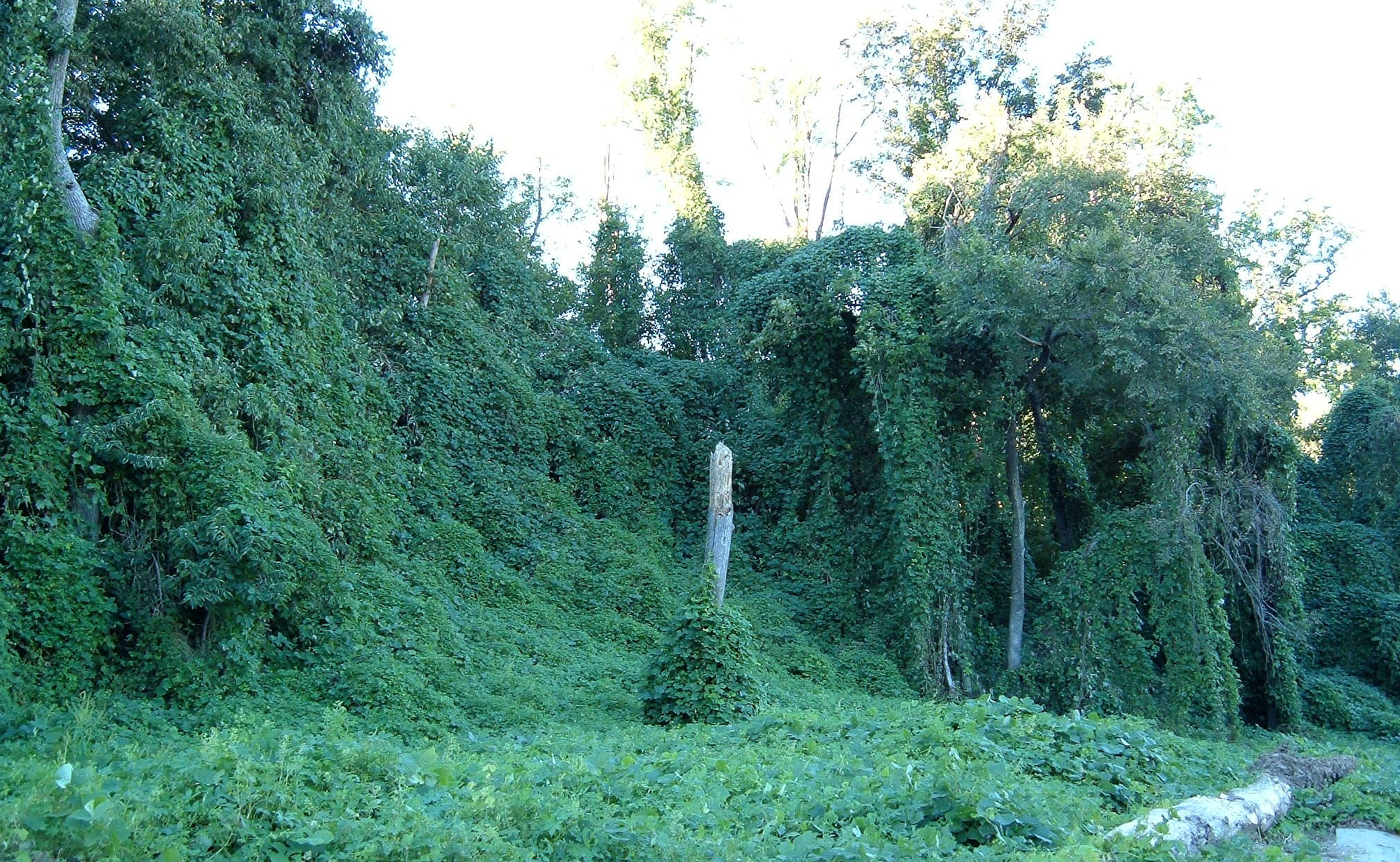 Kudzu on trees in Atlanta, Georgia, USA Location: Piedmont Park, next to large drainage ditch near railroad track